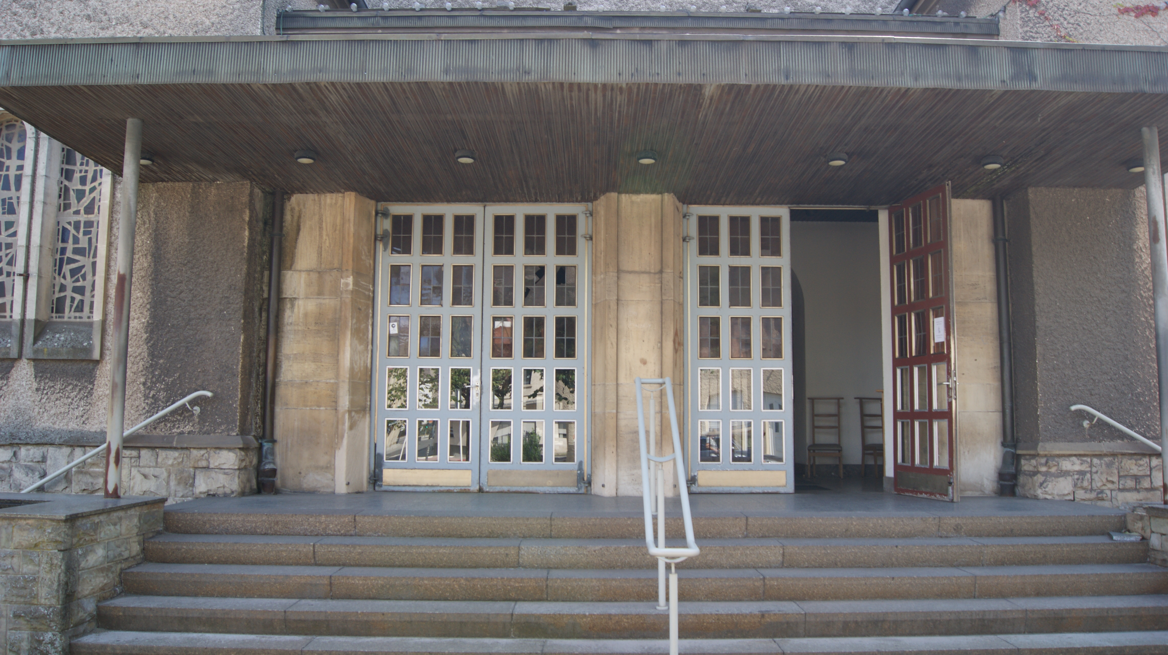 Church Saint-Joseph in Differdange (Fousbann) in the Grand Duchy of Luxembourg.